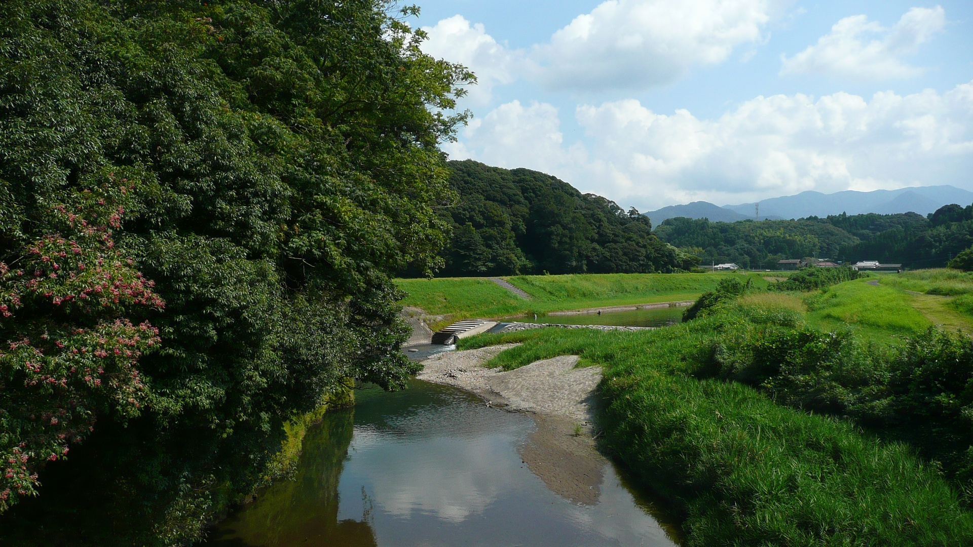 Aira River (Aira, Kanoya City, Kagoshima, Japan)